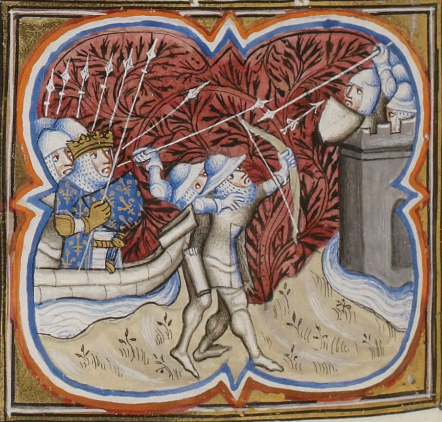 Siege of Tunis during 8th crusade. Grandes Chroniques de France.